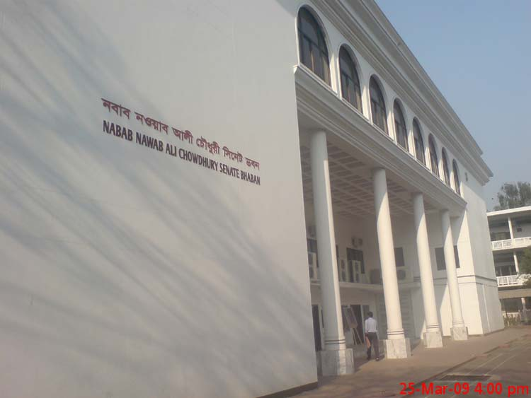 Nawab Ali chowdhury senate bhobon